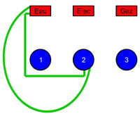 Homotopic links